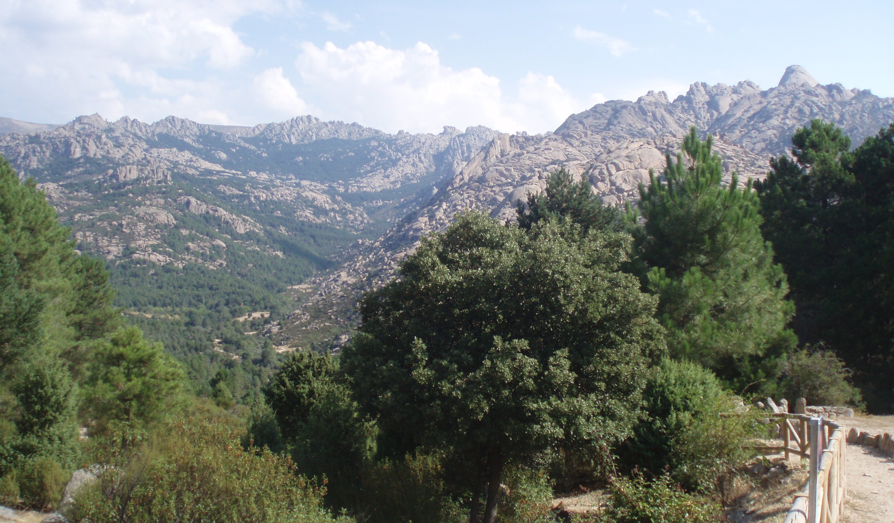 General view of La Pedriza (Sierra de Guadarrama, central Spain).